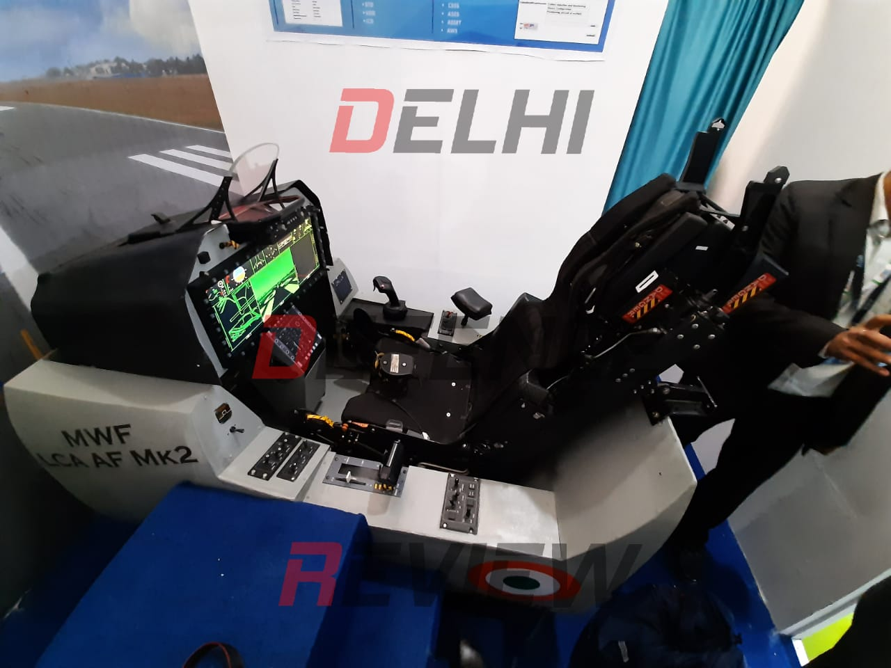 MWF cockpit mockup at Defexpo 2020 Large Area Display